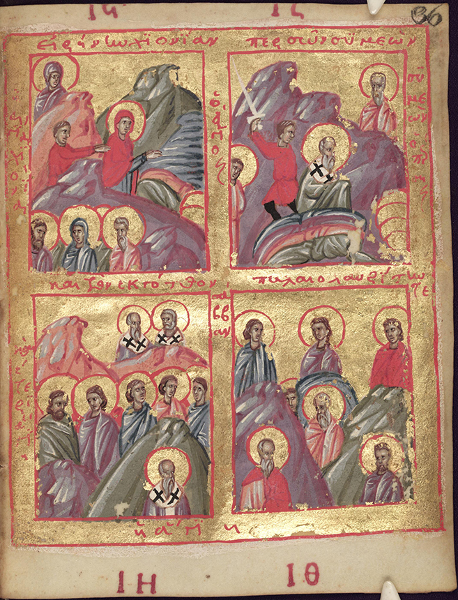 Page from a pictorial calendar of saints' feast days, from a Greek Menologion with Byzantine miniatures, badly flaking, made for Demetrios I Palaiologos, despot of Thessalonike 1322-c. 1340. Shelfmark: Bodleian Library MS. Gr. th. f. 1